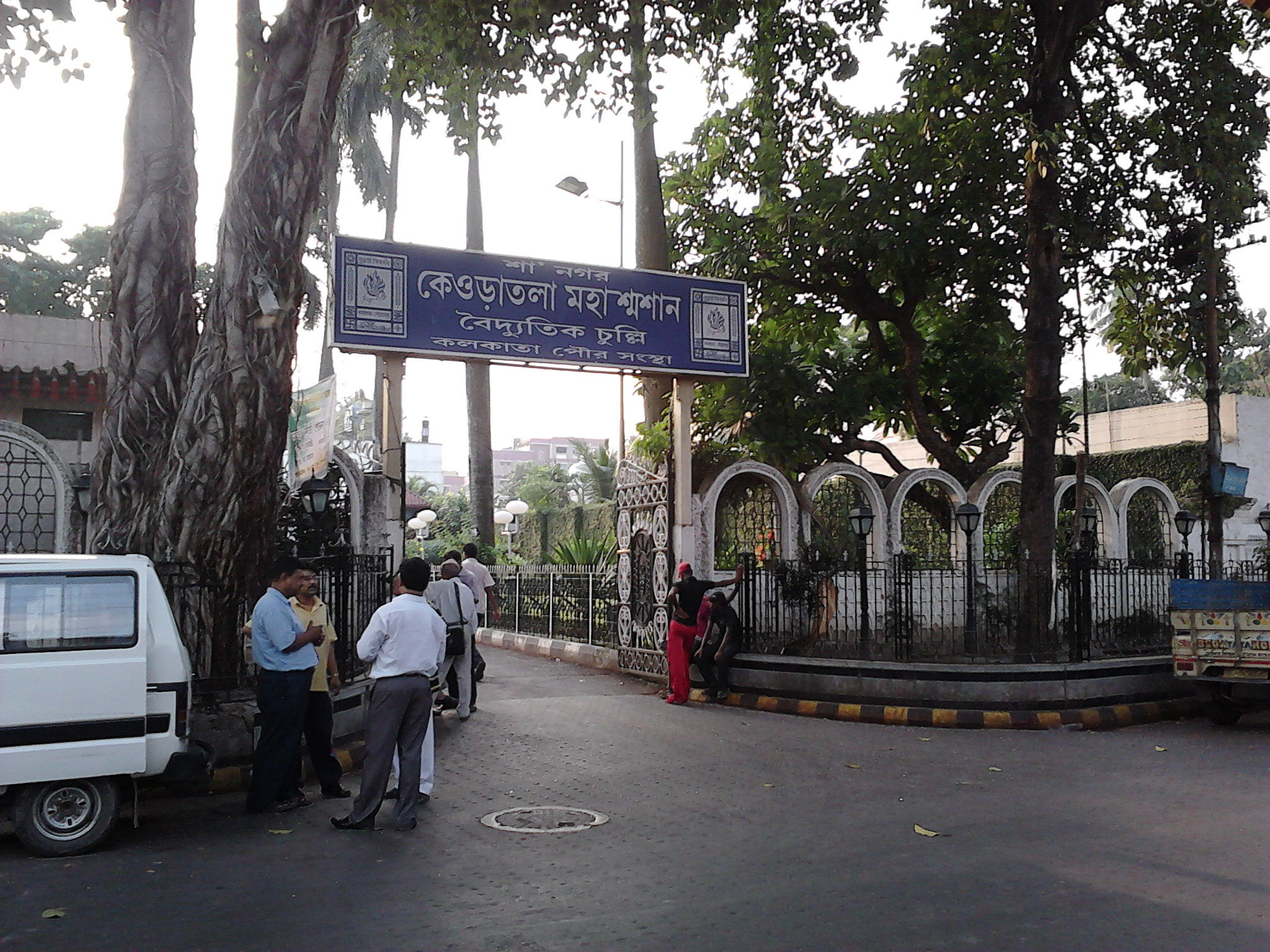 Keoratala Burning Ghat or Crematorium in Kolkata located on Tollygunge road and easy to reach burning ghat in South Kolkata. Citizens of south Kolkata always prefer Keoratala Swasan Ghat for the funeral process of dead bodies in Kolkata. There are four electric ovens to cop up with the rushes of dead bodies and the management of Keoratala Burning Ghat at Kolkata maintained the funeral place very clean and clear. It is maintainied by the Kolkata Municipal Corporation. This media file is uploaded with India loves Wikipedia event.